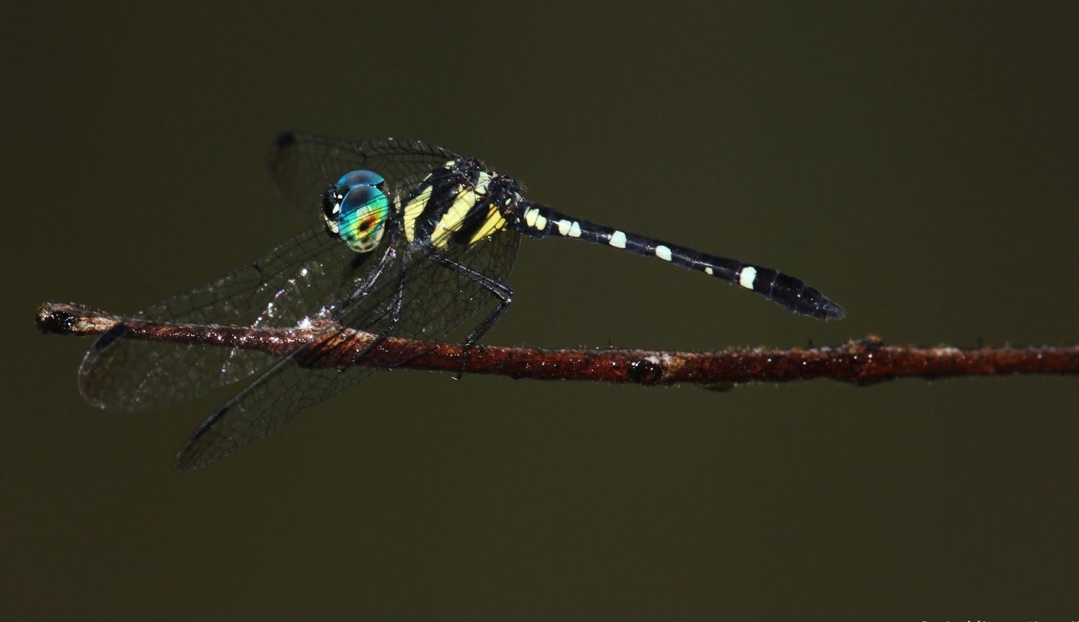 Yebury's Elf is an endemic species of dragonflies found in Sri Lanka